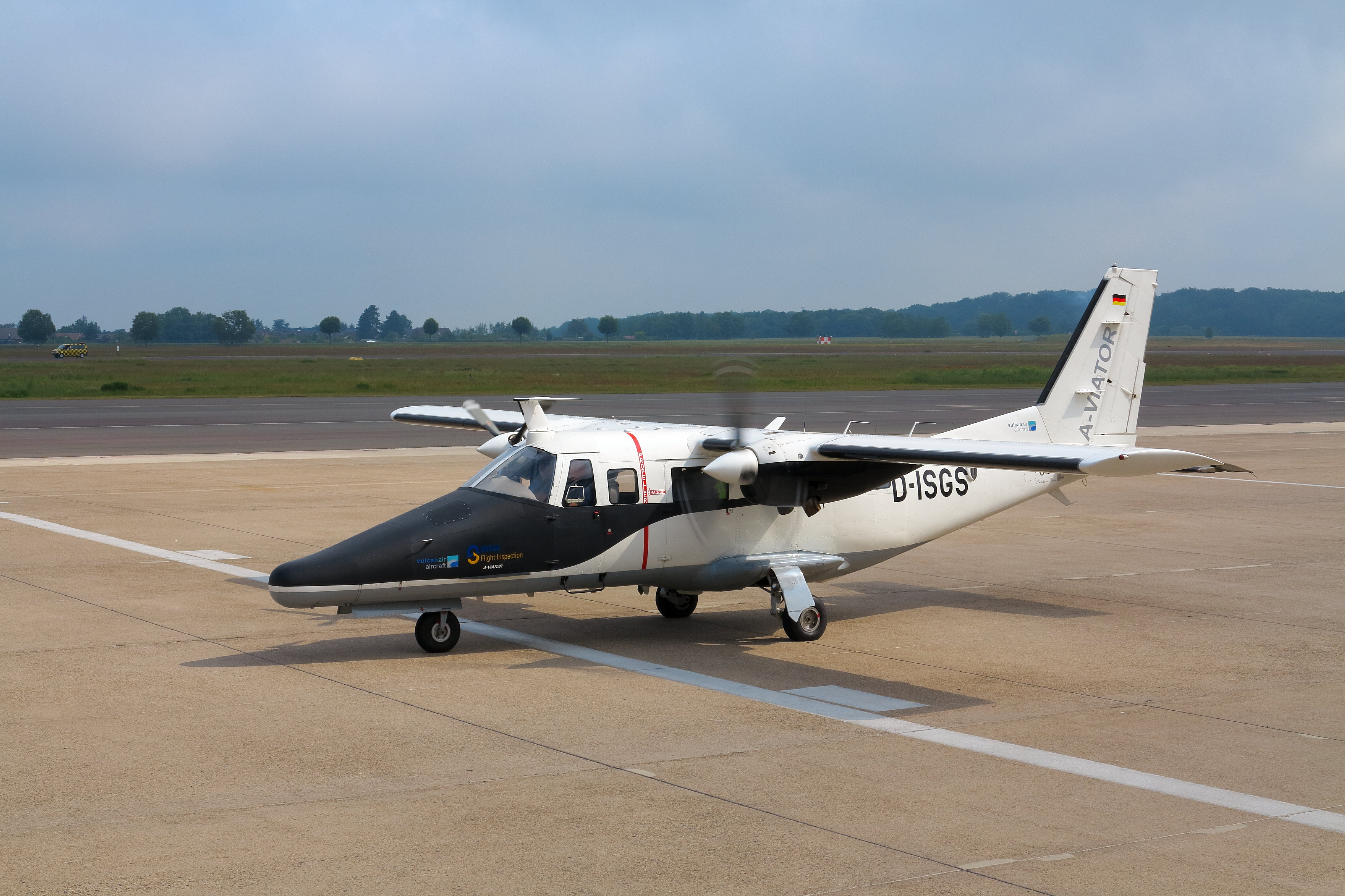 D-ISGS, a Partenavia AP.68TP-600 A-Viator, at Brunswick, Germany Airport